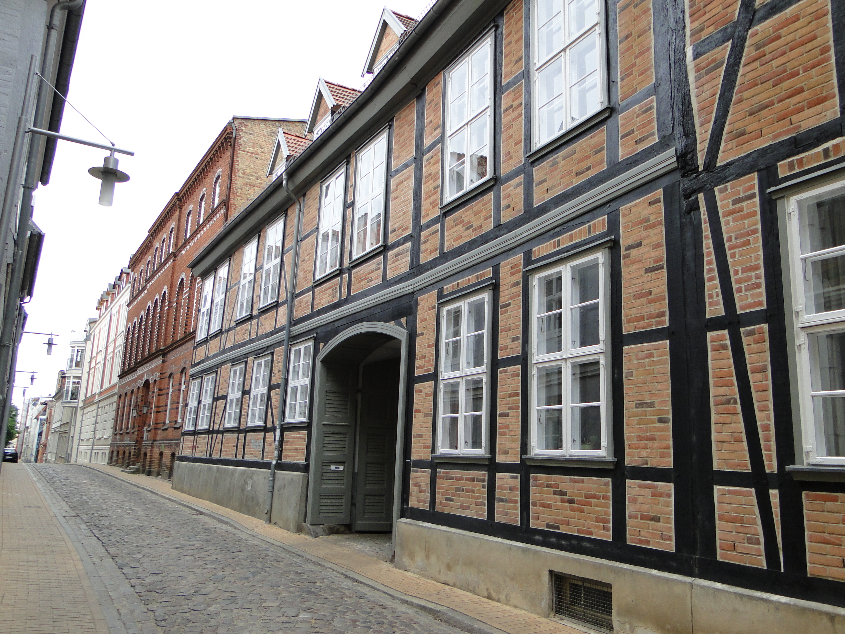 Cultural heritage monument in Schwerin, Mecklenburg-Vorpommern, Germany